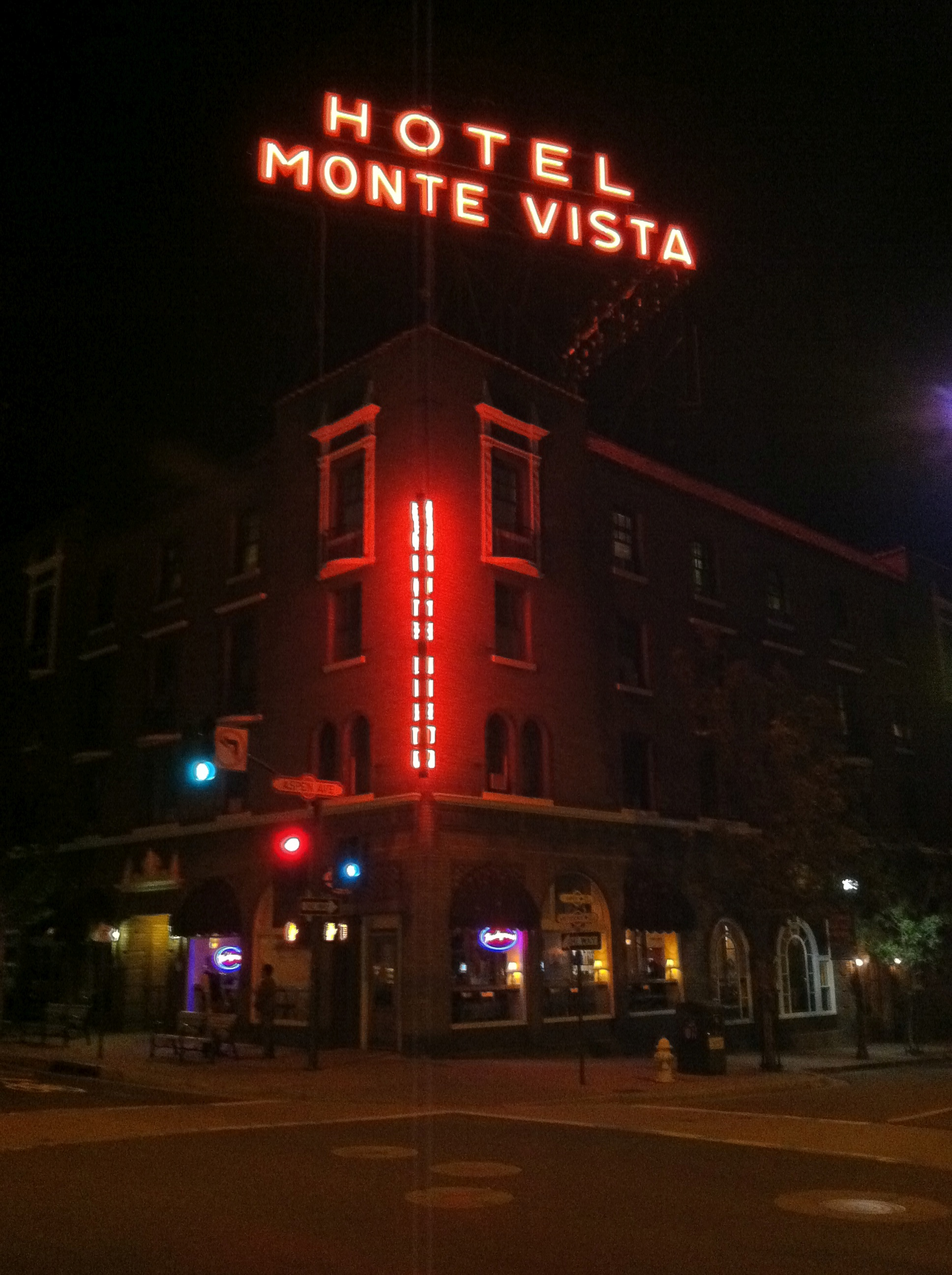 The outside of the Hotel Monte Vista in Flagstaff, AZ.